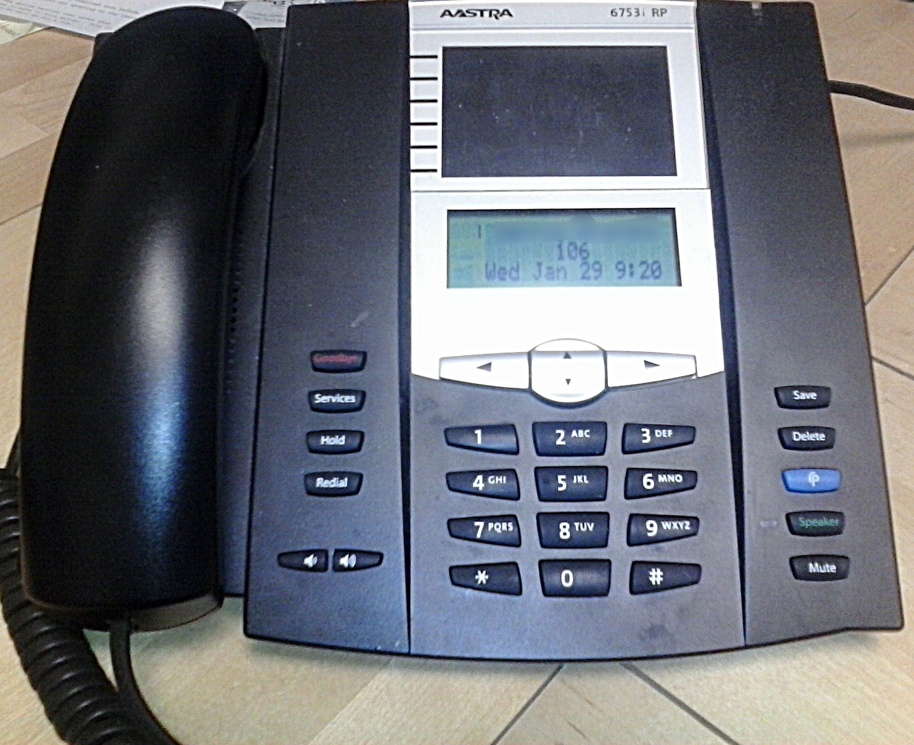 A photo of an Aastra 6751i RP phone. This phone supports both Microsoft Response Point, and with recent firmware upgrades standard SIP VOIP services. The label on it says Aastra 6753i, but it is incorrect. I had the wrong cover on it, something I didn't realize until after this photo was taken. Photo quality is not as good as File:Aastra 53i.JPG but its a different model.